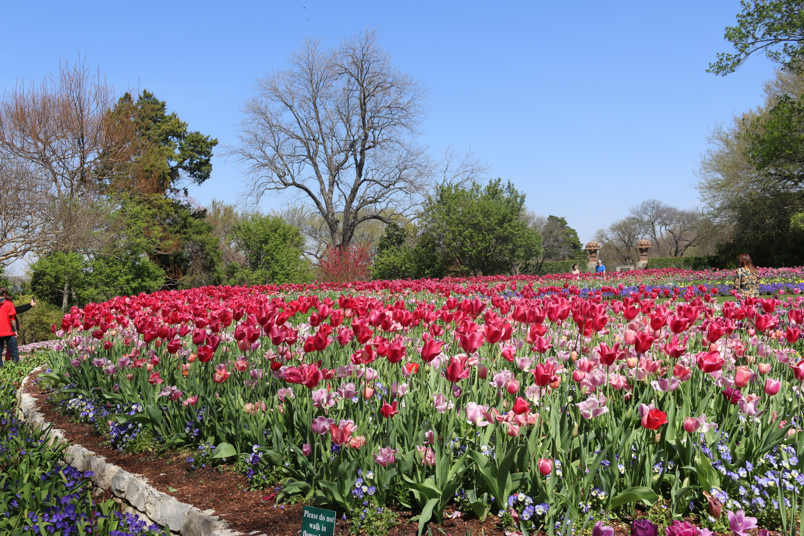 Tulip